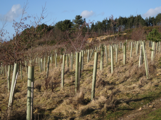 Young trees above former sand quarry. This tree-planting is on the far slopes in 908074. Staked tree shelters help support young trees and protect their vulnerable bark from grey squirrels and particularly voles. This looks like mollycoddling though. The mature trees are in the vicinity of Sands Copse (with some sand visible). Being conifers they must have been planted on the site of a deciduous coppice.